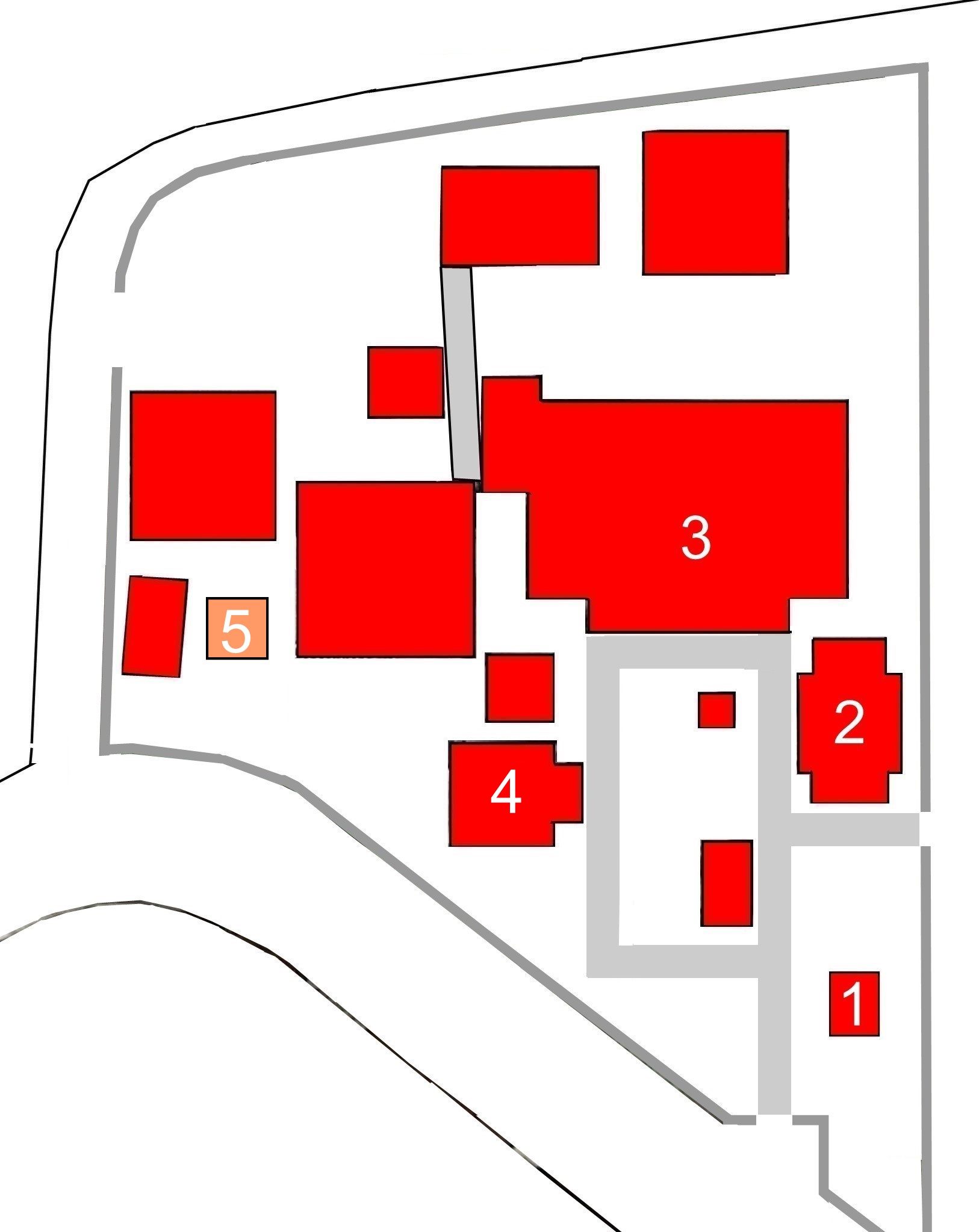 Layout of Sekkei-ji temple at Kôchi, Japan